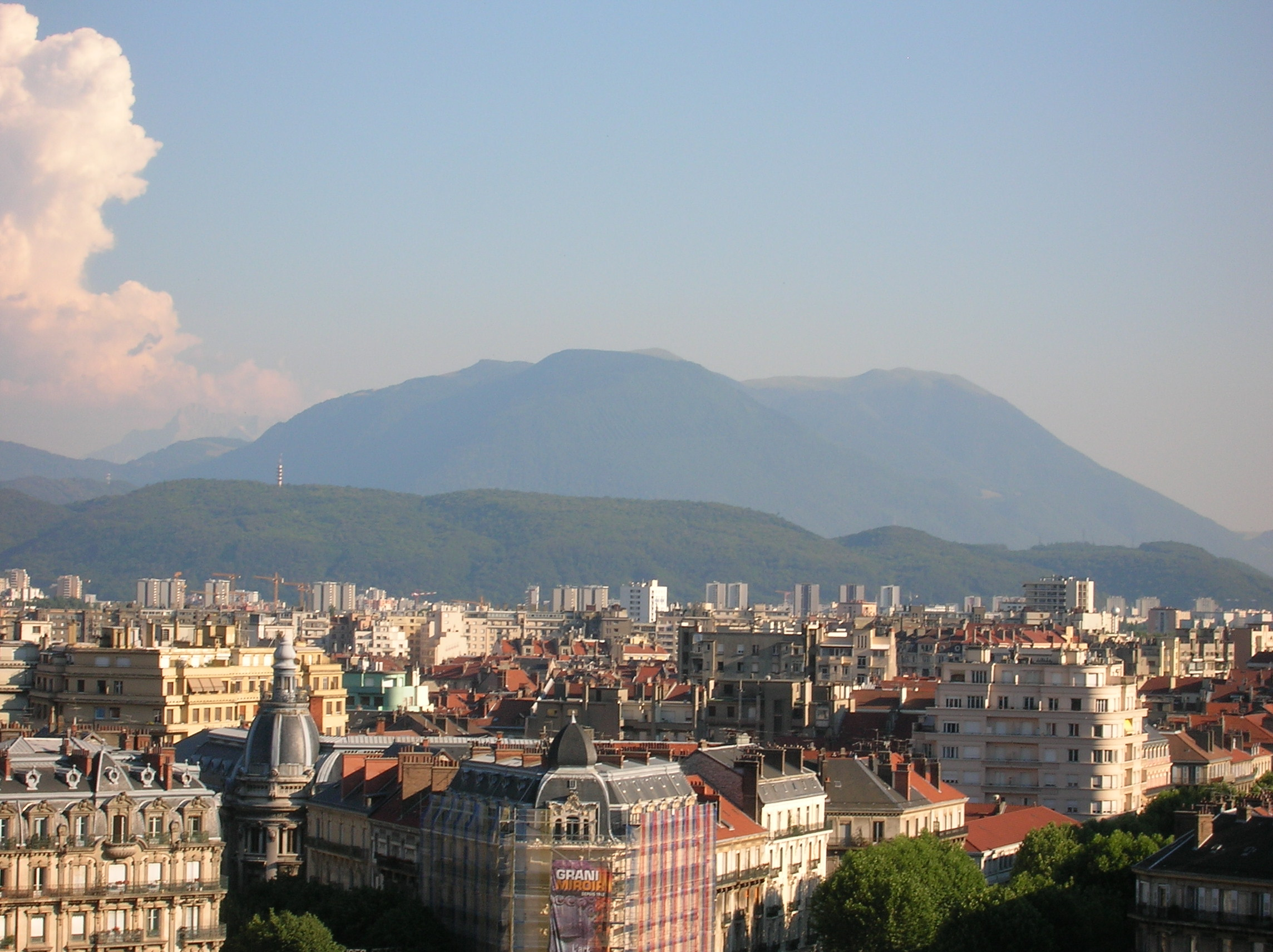 my own photograph